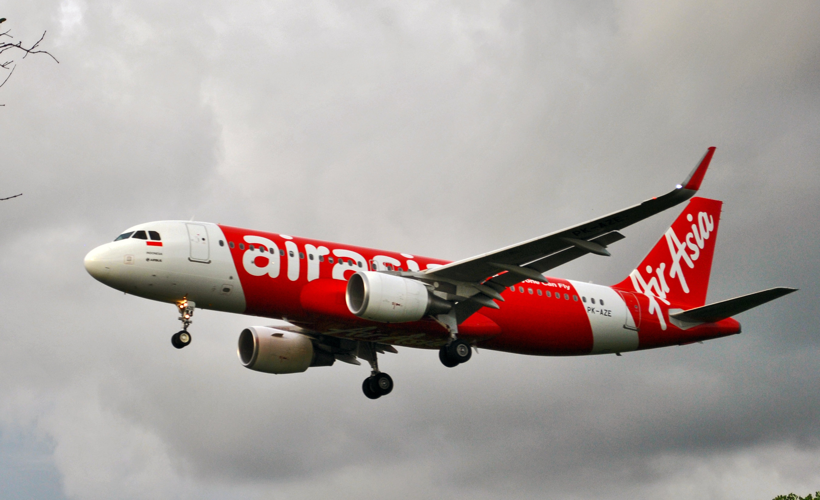 Indonesia AirAsia Airbus A320-200 (PK-AZE) approaching at I Gusti Ngurah Rai International Airport, Denpasar, Bali